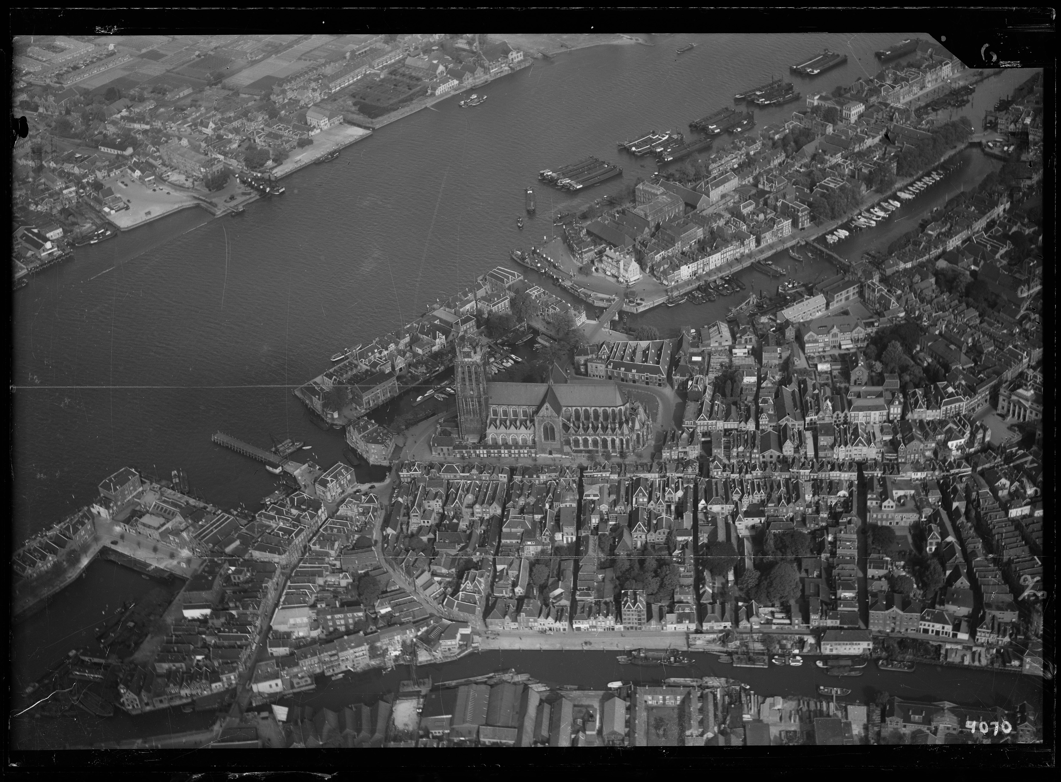 Aerial photograph of Dordrecht, The Netherlands